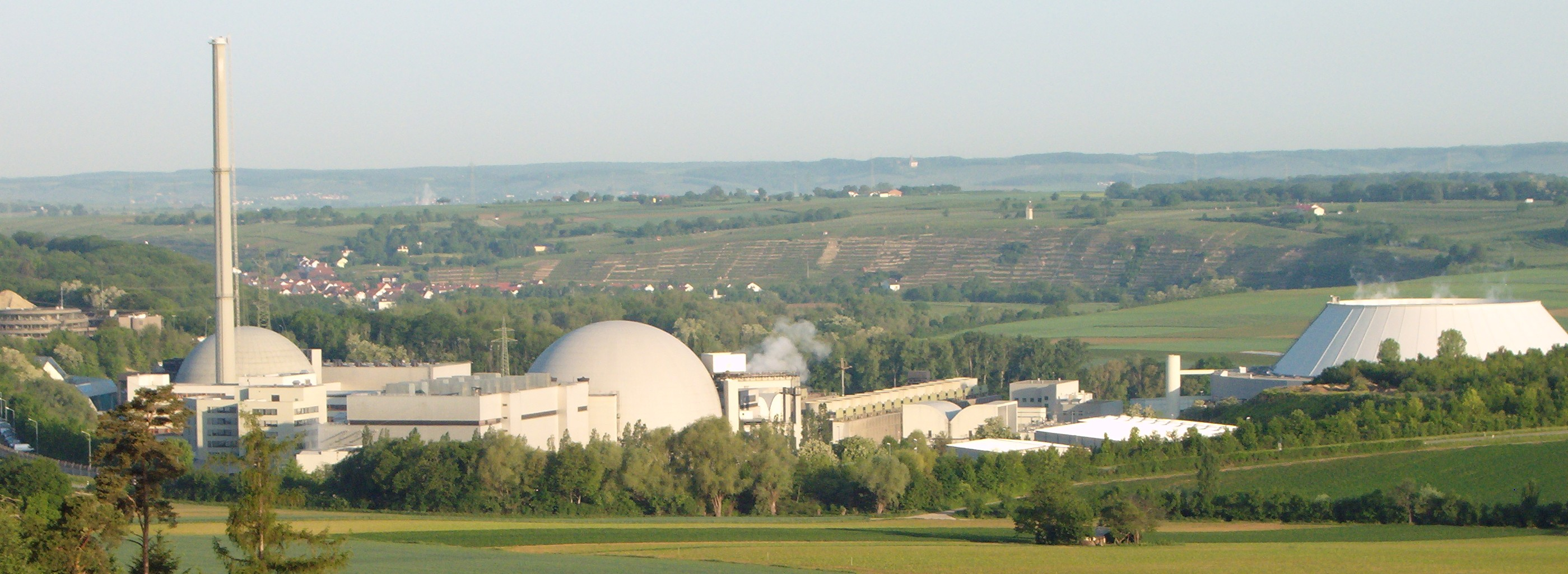 Nuclear Power Plant "Gemeinschaftskraftwerk Neckar" near Neckarwestheim, Germany. Photo taken from the keep of Castle Liebenstein. Center of image: Cell-Cooling of Unit 1, right: hybrid cooling tower of unit 2